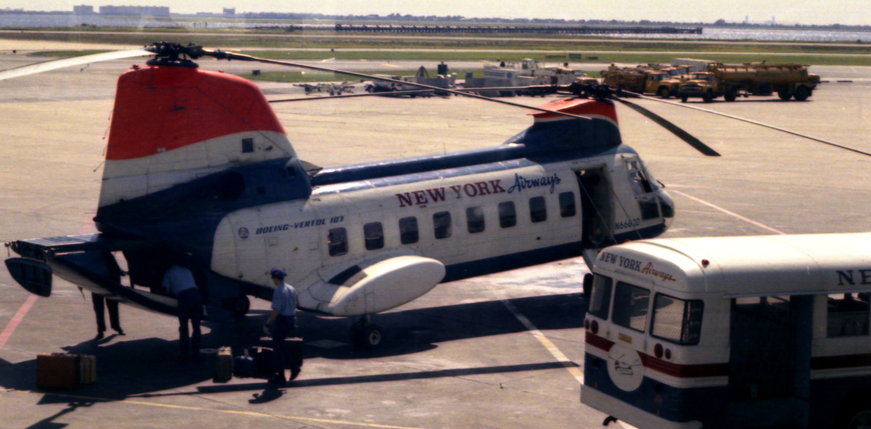 Photo taken September 1, 1967. The helicopter is a Boeing-Vertol 107-II built in 1964, registration number N6682D. This is a slightly different view of the same aircraft that I posted in June, 2007 (in my New York City, 1967 set). This shuttle service was in operation for only a short time.